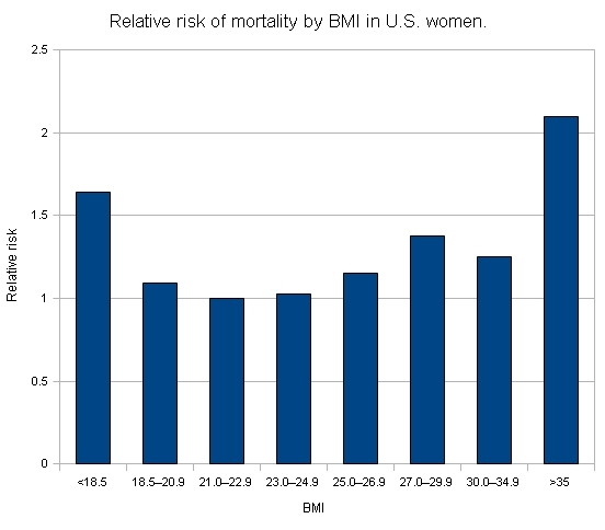 Relative risk of mortality by BMI in U.S. women. Based on Freedman DM, Ron E, Ballard-Barbash R, Doody MM, Linet MS (May 2006). "Body mass index and all-cause mortality in a nationwide US cohort". Int J Obes (Lond) 30 (5): 822–9. PMID 16404410.